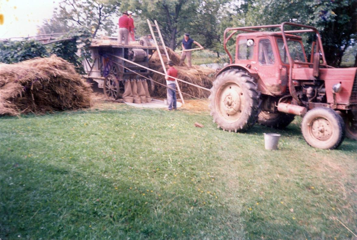 Harvest with thresher in Permise (Kétvölgy)